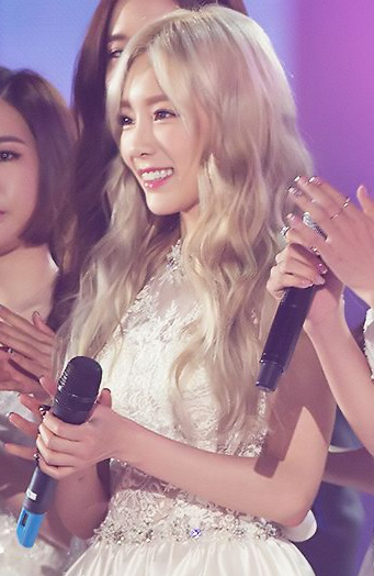 Tae-yeon at KBS Gayo Daechukje in December 2015.